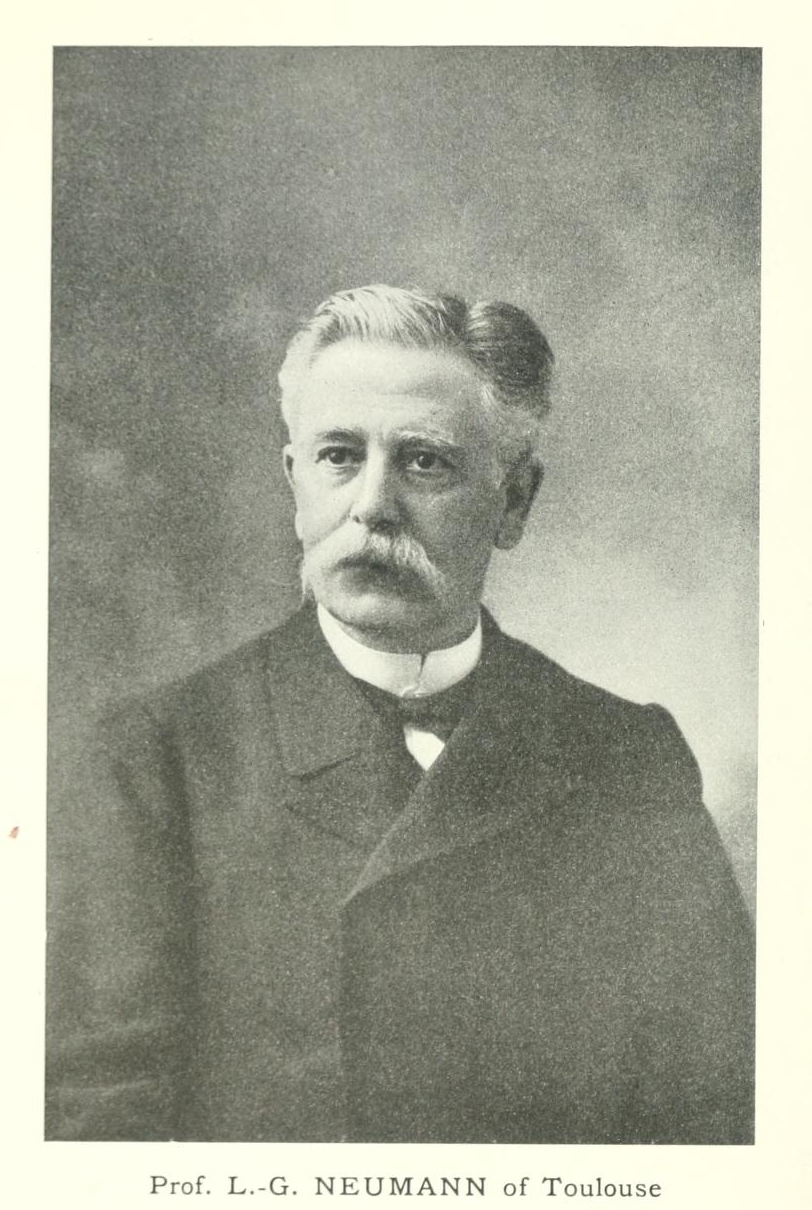 Louis Georges Neumann portrait, entomologist, Toulouse